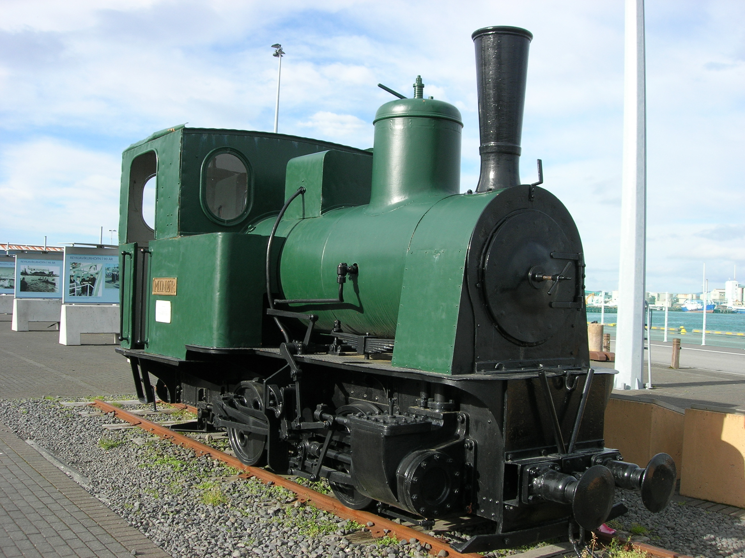 Photograph of preserved Reykjavic Harbour Railway locomotive Minor on Reykjavic quayside. An image of the sister engine may be found at RHR-Pioner.JPG on this project.